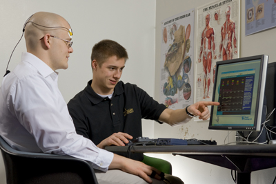 biofeedback graphics Heart rate biofeedback (400 x 266 pix).